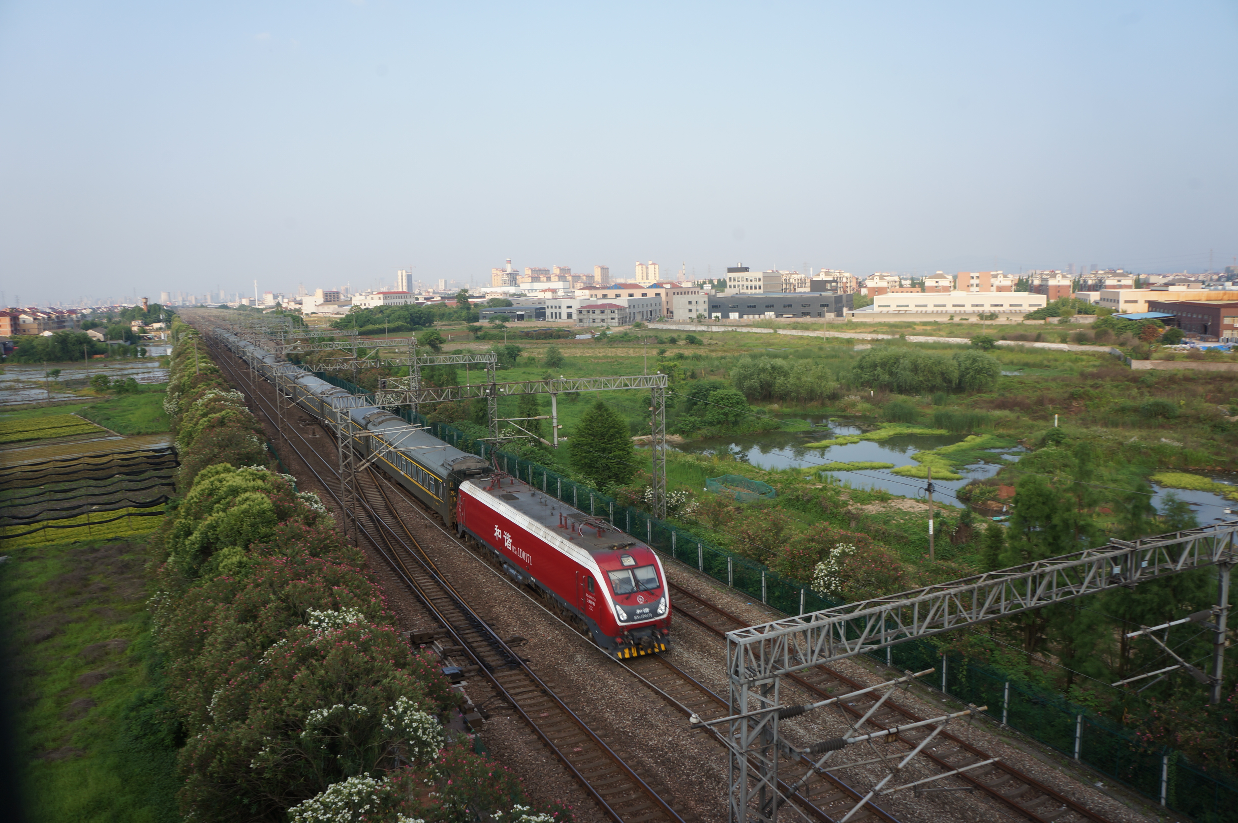 201805 HXD1D-0171 hauls T101 passes through Bailongqiao Station